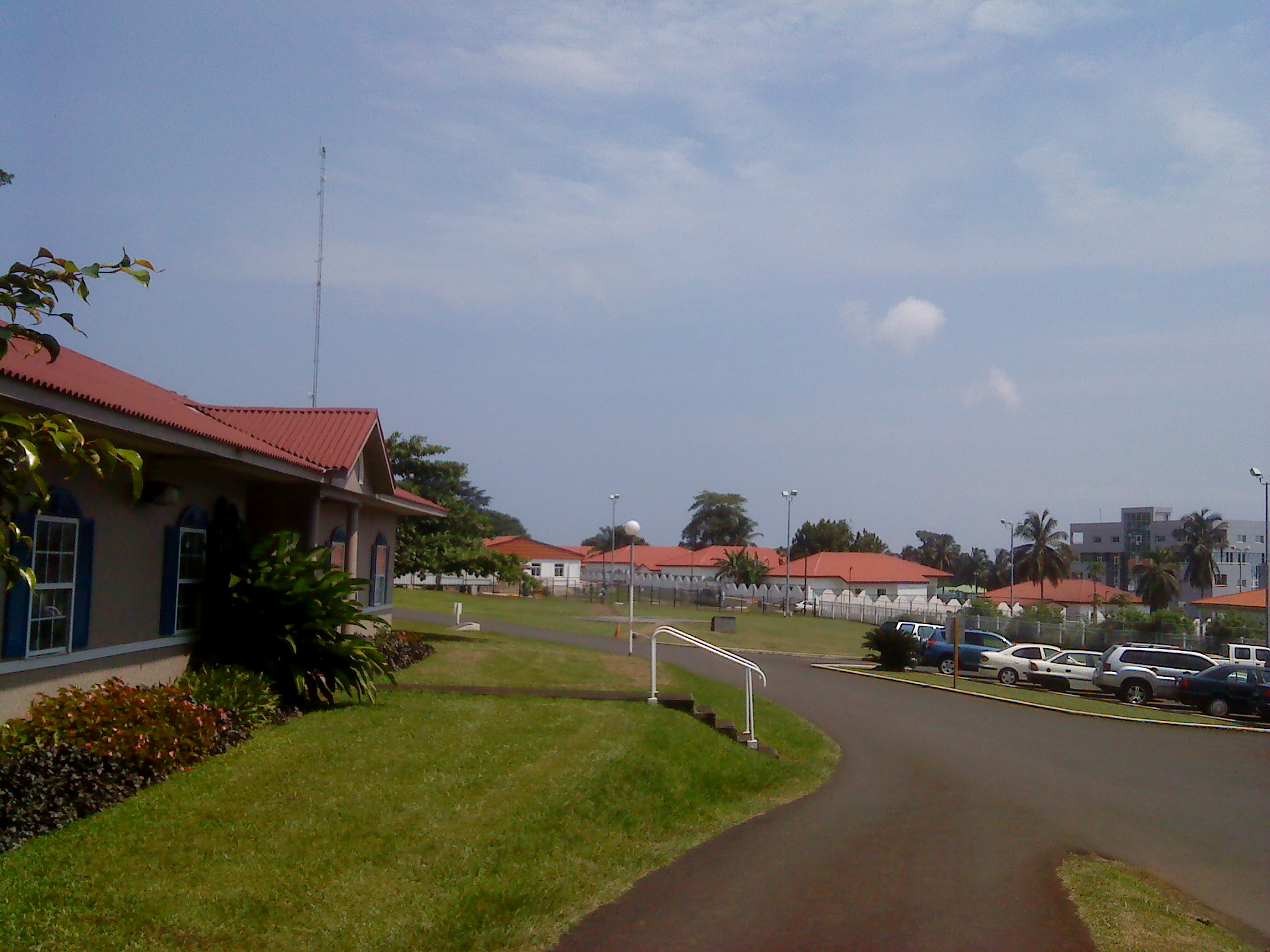 Ciudad de Malabo